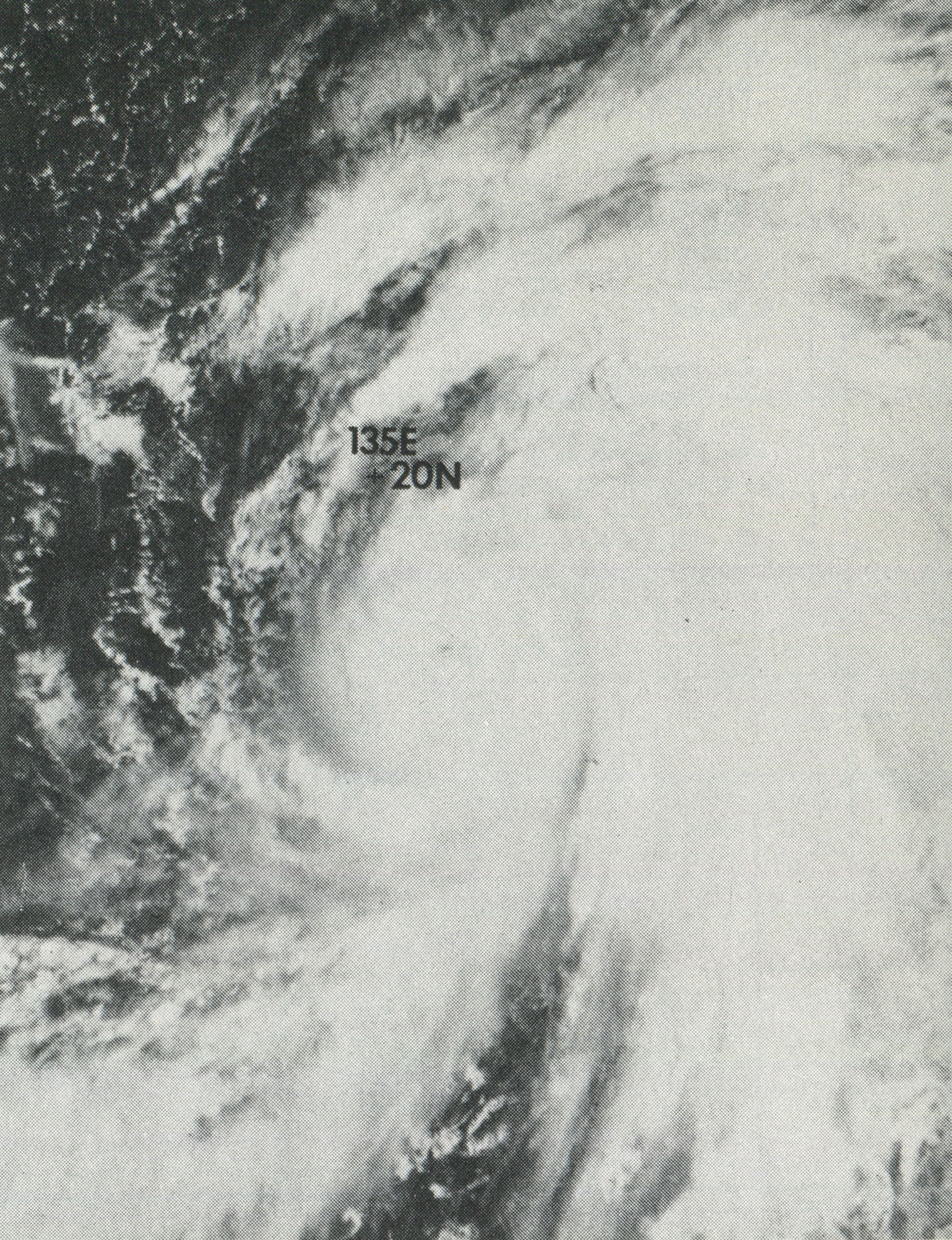 This DMSP weather satellite image of Typhoon Phyllis was taken on August 13, 1975 at 2320 UTC